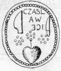 Čáslavice - seal